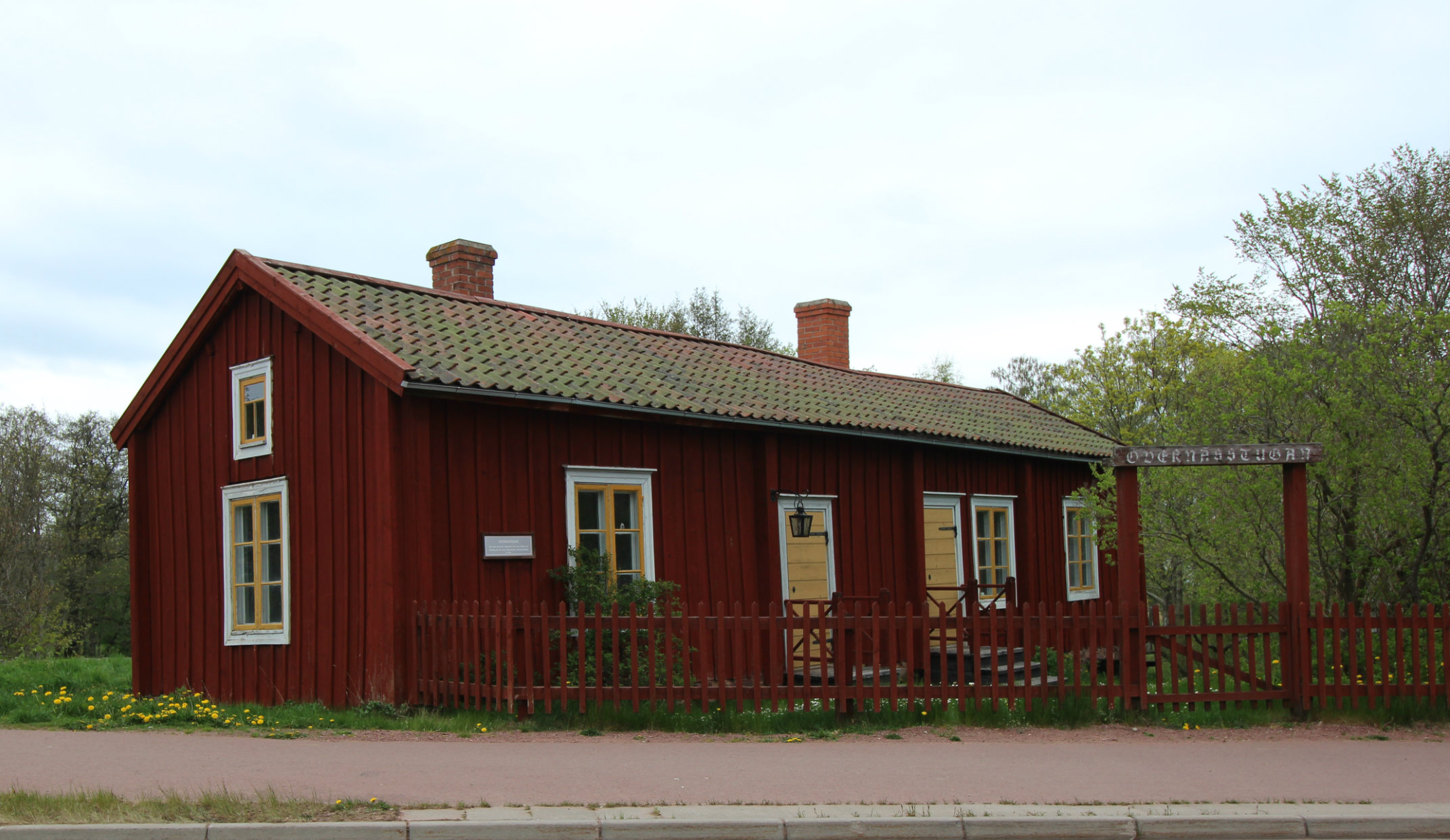 Övernässtugan, the oldest kept house in Mariehamn, Åland